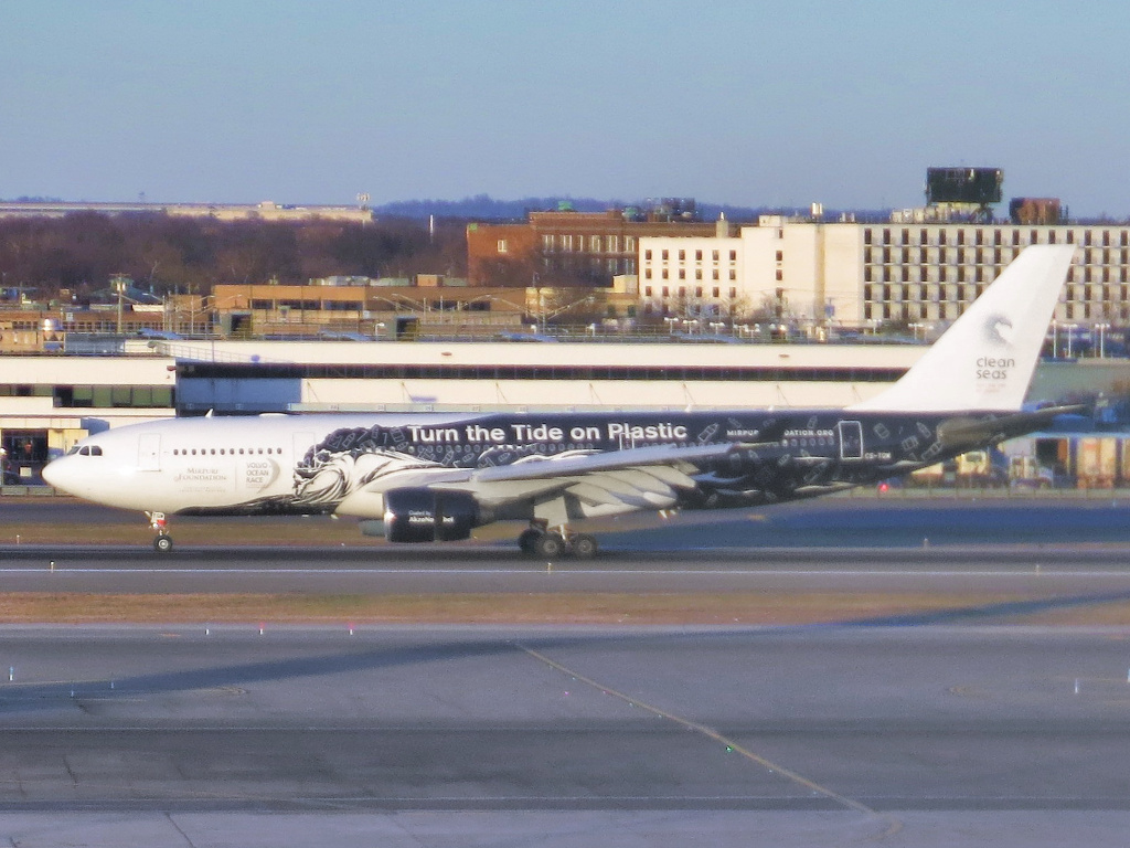 A Hi Fly A330-200, operating Flight OJ276 on behalf of Fly Jamaica Airways, is landing at John F. Kennedy International Airport in Queens, New York, USA. This aircraft is painted in a special livery for clean oceans and plastic waste reduction.